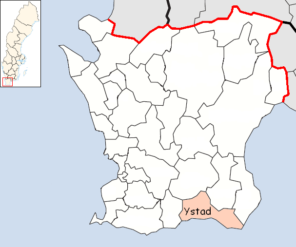 Ystad Municipality in Scania, Sweden Designed by me. Mere outlines are a PD source from